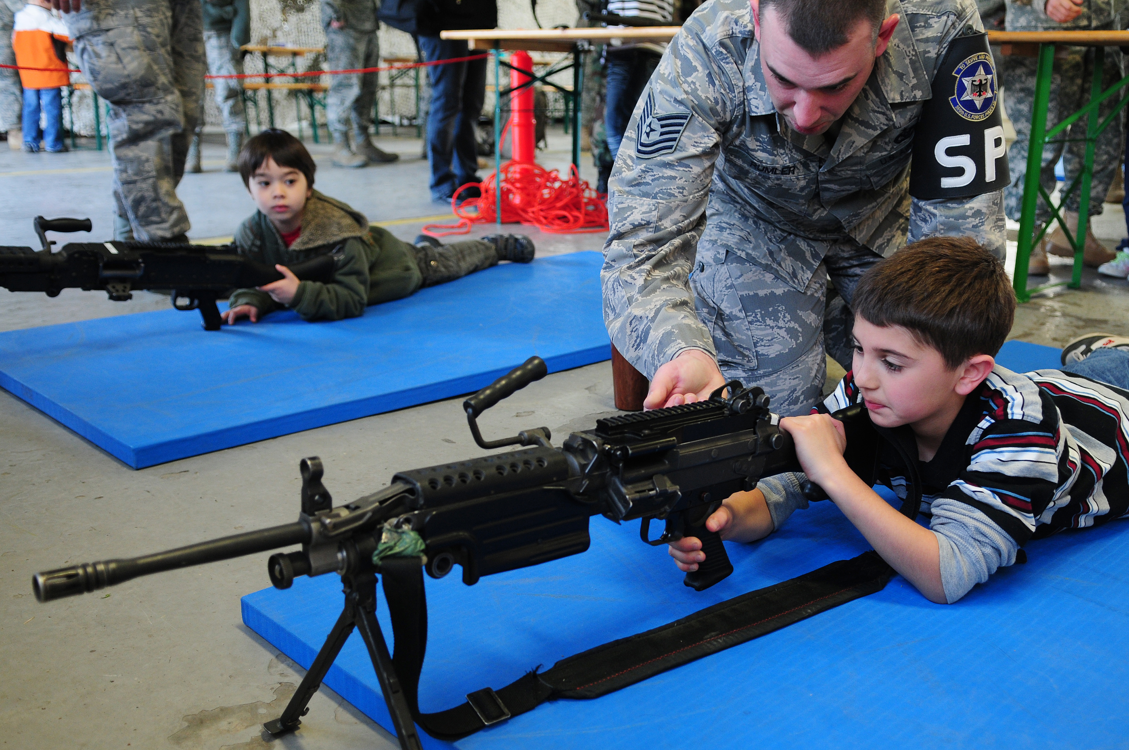 U.S. Air Force Tech. Sgt. Keith Rumler, 569th U.S. Forces Police Squadron, assists his son Bruce, 9, with a M249 Squad Automatic Weapon during Job Shadow Day, Kapaun Air Station, Germany, April 22, 2010. Job Shadow Day in the Kaiserslautern Military Community is an annual event in which children have the opportunity to shadow their sponsor or a workplace mentor, completing a half-day on the job in an effort to introduce the young people to the working community through participation. (U.S. Air Force photo by Airman 1st Class Desiree Esposito)